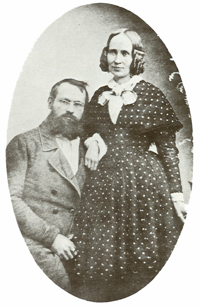 Carte de visite as reproduction of a daguerreotype